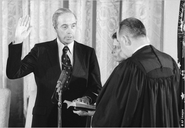 William W. Scranton swearing in to become the U.S. Representative to the United Nations